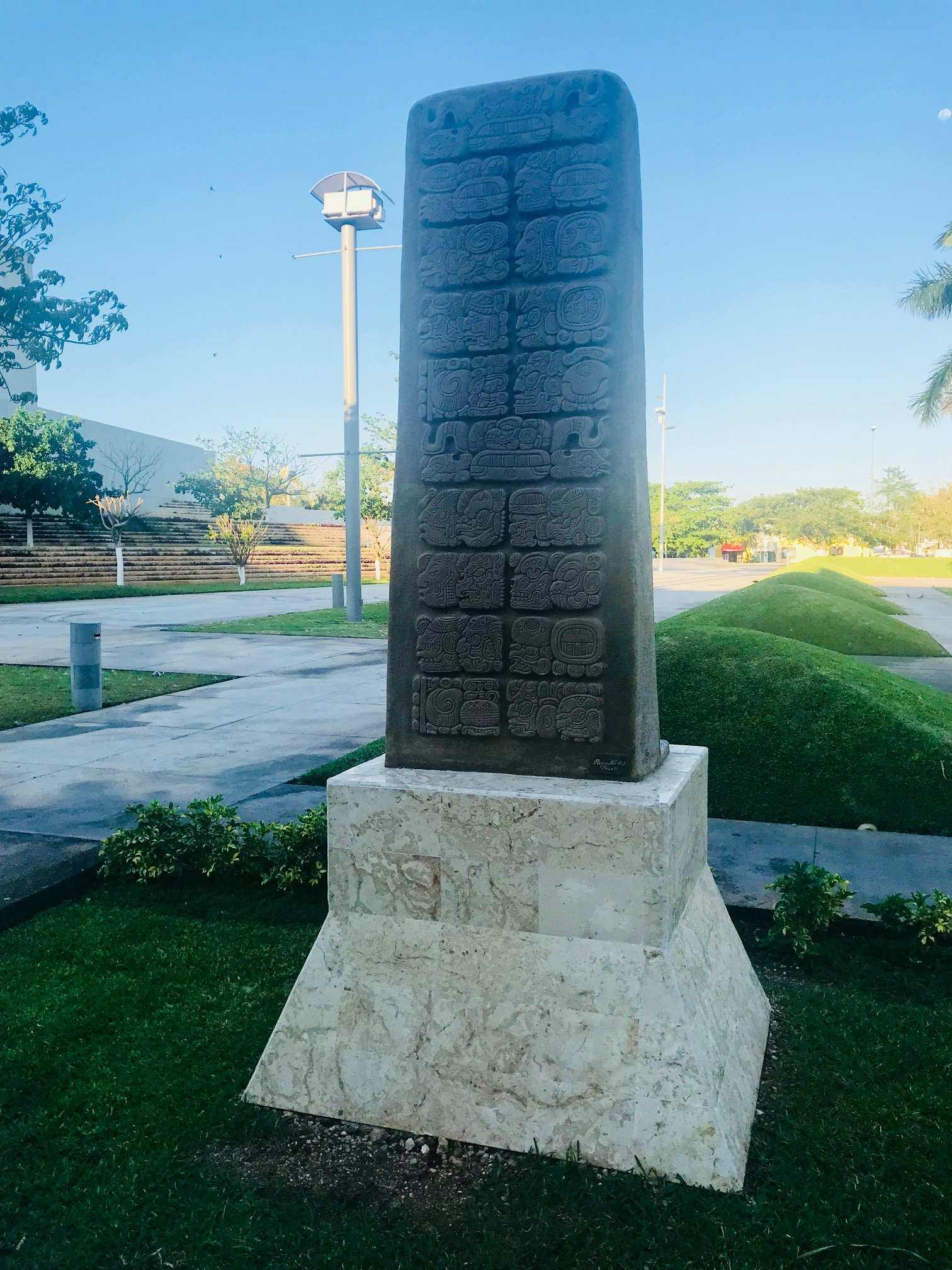 Monument (rear) to Yuri Knorosov in Mérida, Yucatán, Mexico Gift from the Russian people to the Mayan people of Yucatán, in México. 2018